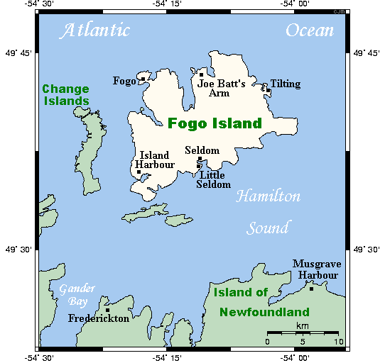 A closeup map of Fogo Island, Newfoundland and Labrador, Canada